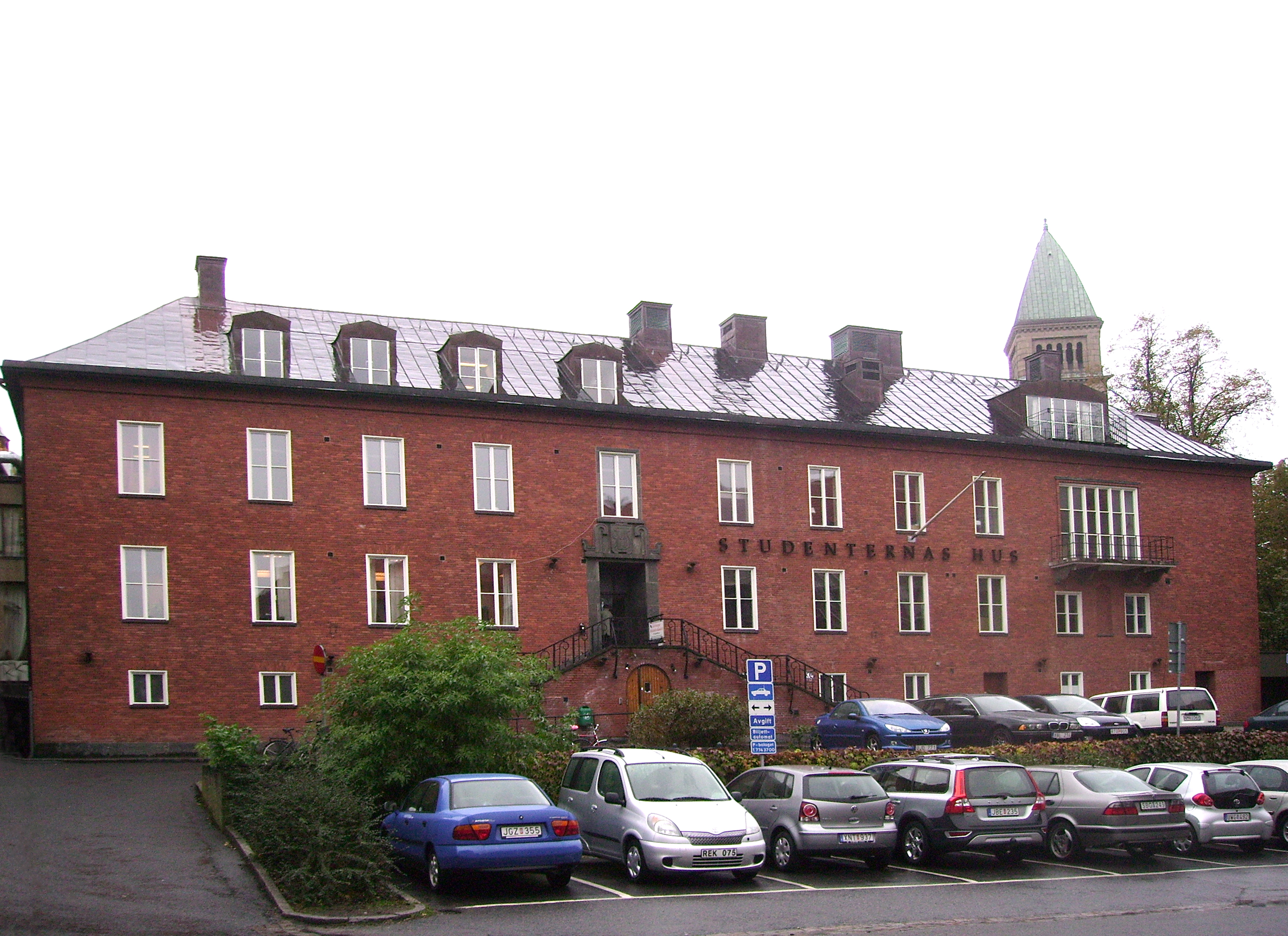 Picture of Studenternas hus in Göteborg.